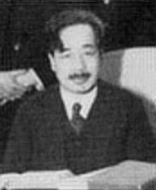 Bunsaku Arakatsu